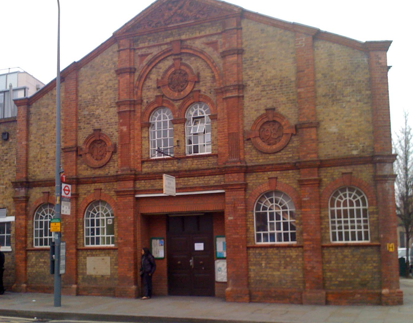 Shepherds Bush Village Hall, Shepherd's Bush, London. Originally built for the 1st London Artillery Volunteers (City of London) in 1898, by 1914 19th Battery, 7th London Brigade, Royal Field Artillery (Territorial Force)